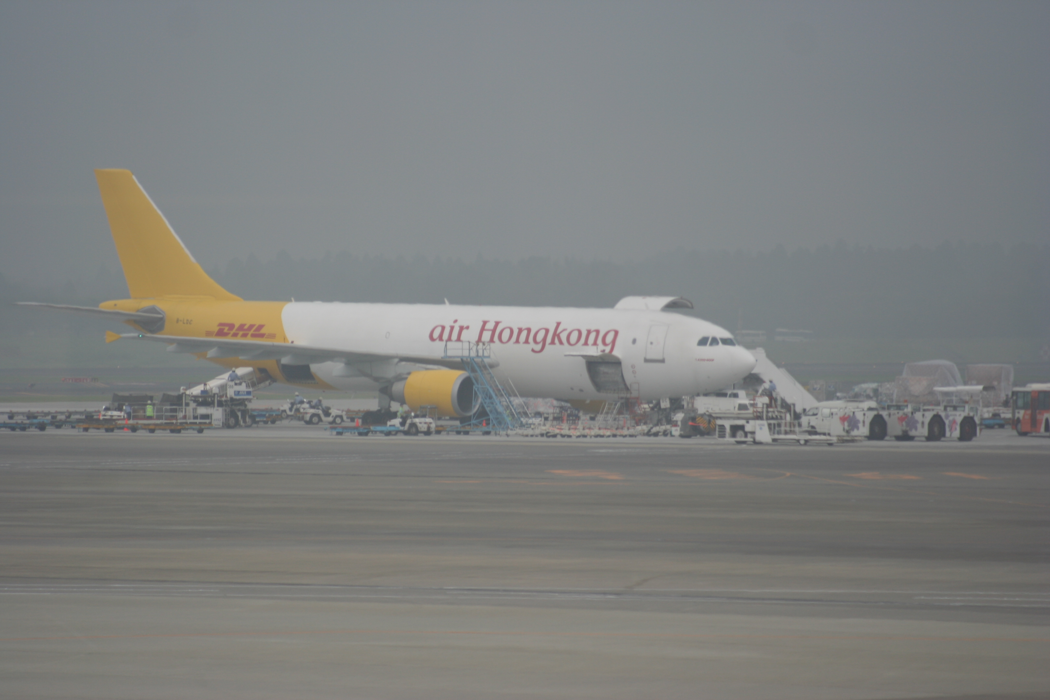 Cargo air craft of Air Hong Kong taken in Narita Airport.